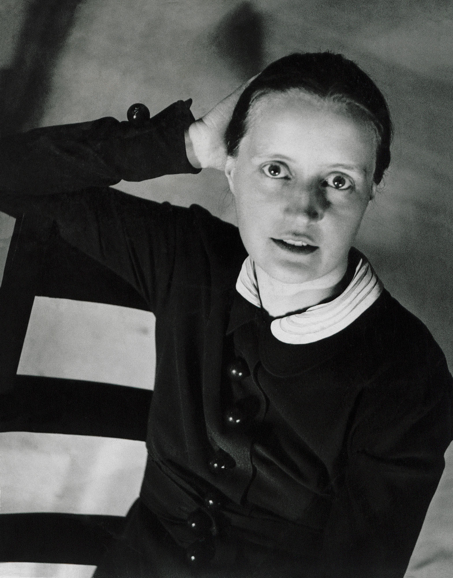 Portrait Hedwig Bollhagen